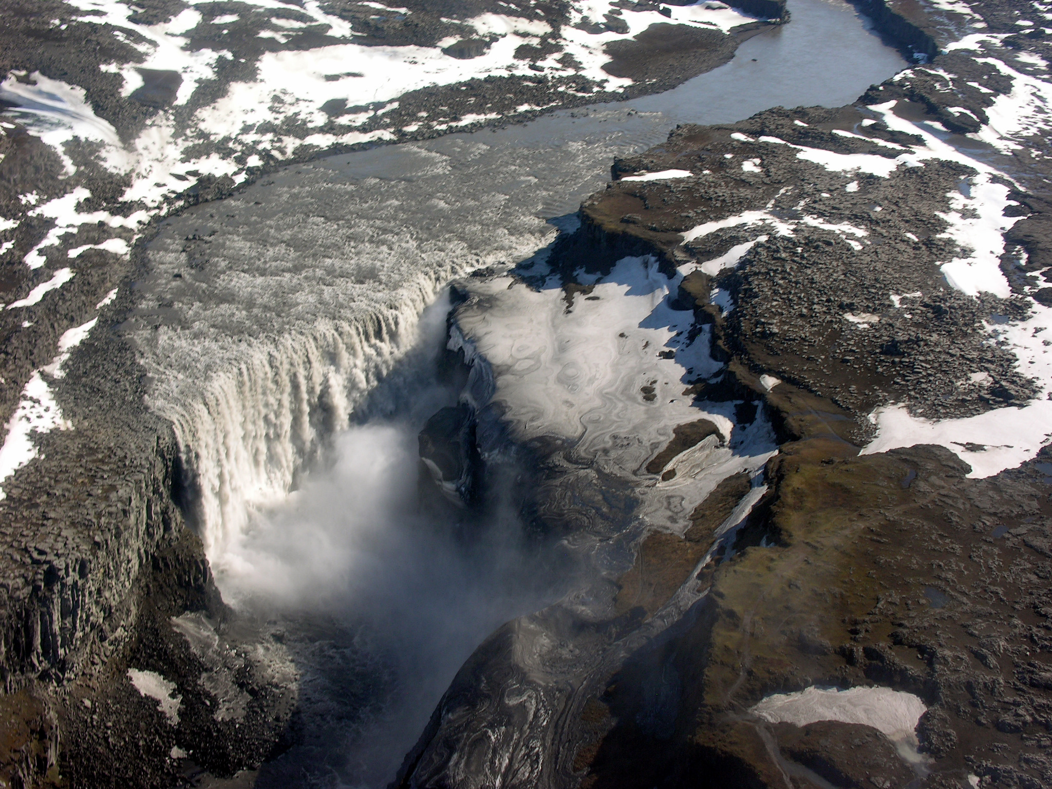 Aerial View of Dettifoss